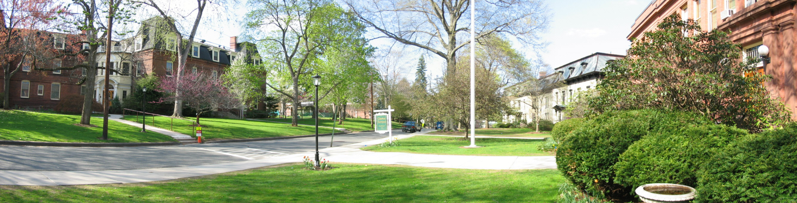 Clarke School for the Deaf. Dormitory across the street on the left; school buildings on the right.